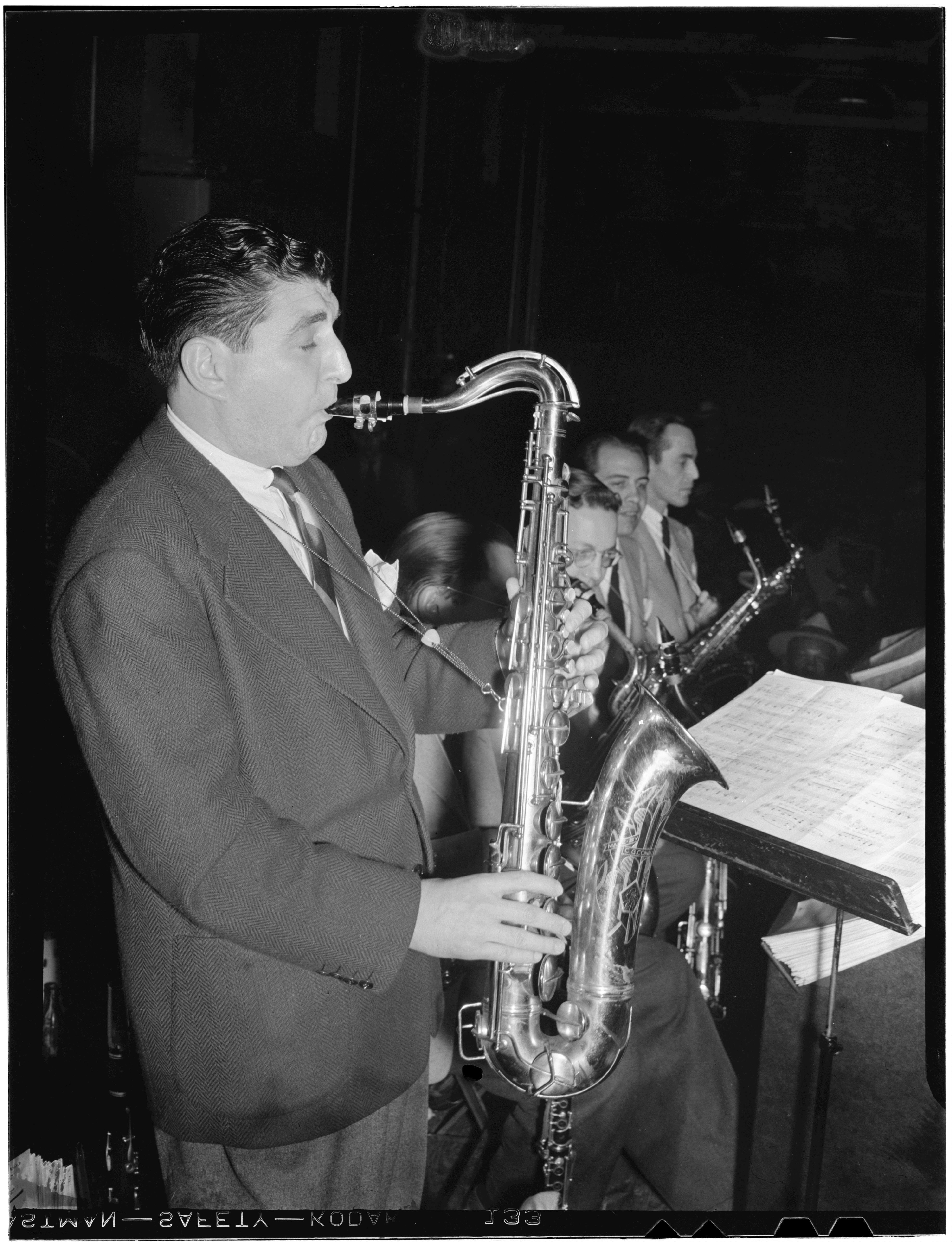 Tony Pastor, Hotel Edison, New York, N.Y., between 1946 and 1948 (Photograph by William P. Gottlieb)